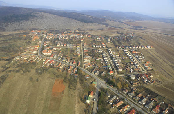 Aggtelek, Hungary, aerial photography